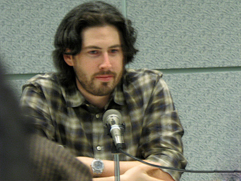 Juno director Jason Reitman He was a surprise guest with no mention in the programme.